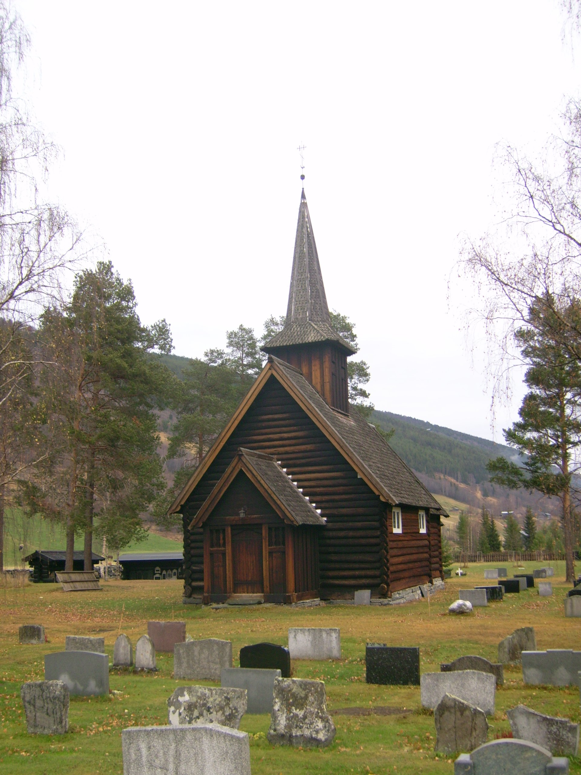 Bjølstad chapel by Heidal church, Sel, Norway